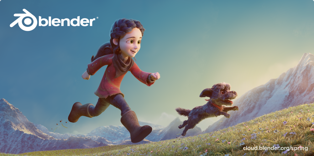 Splash file for the free and open Blender 3D application, version 2.80